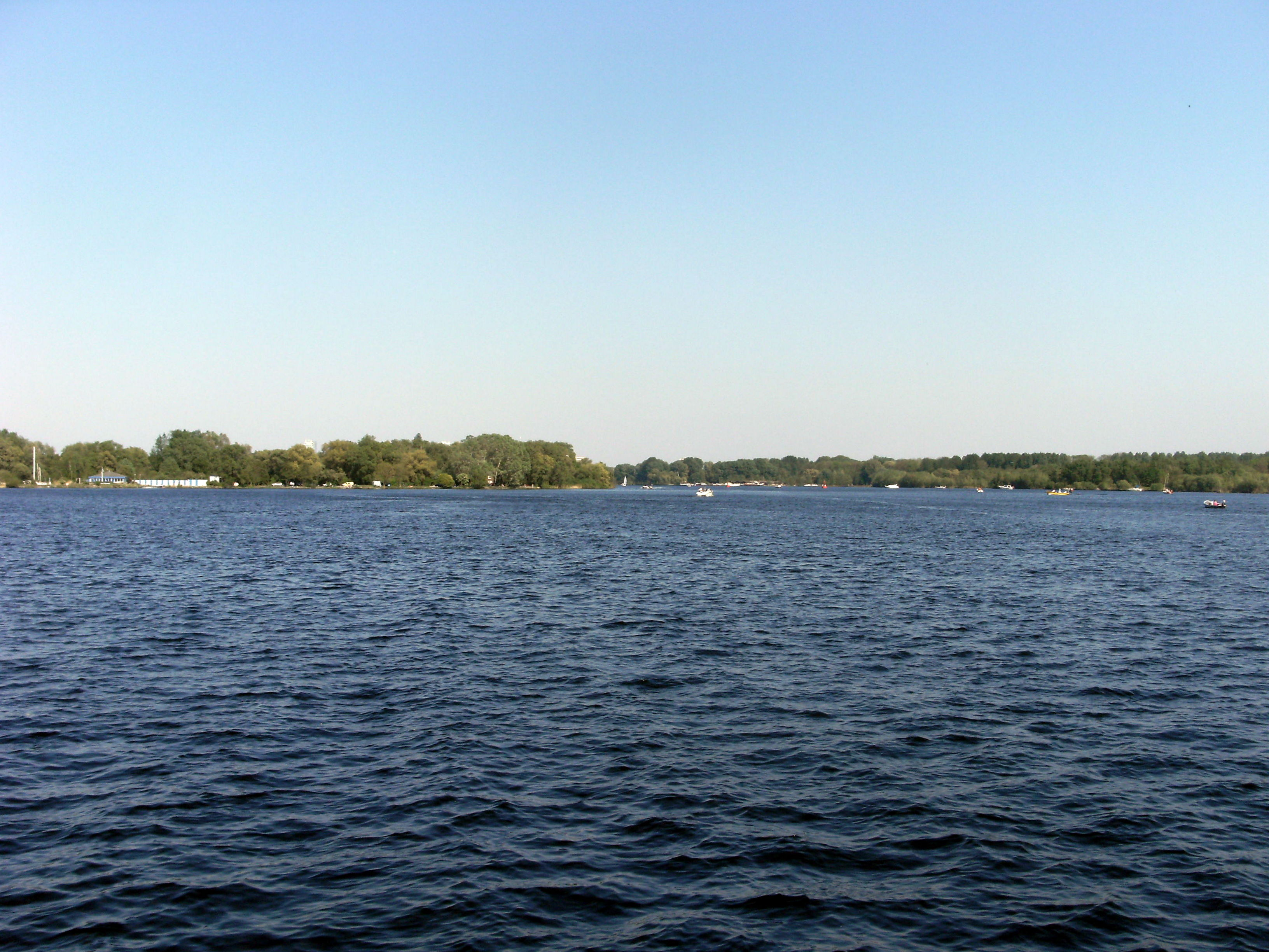 2011-04- 25 in Amsterdam; Nieuwe Meer.